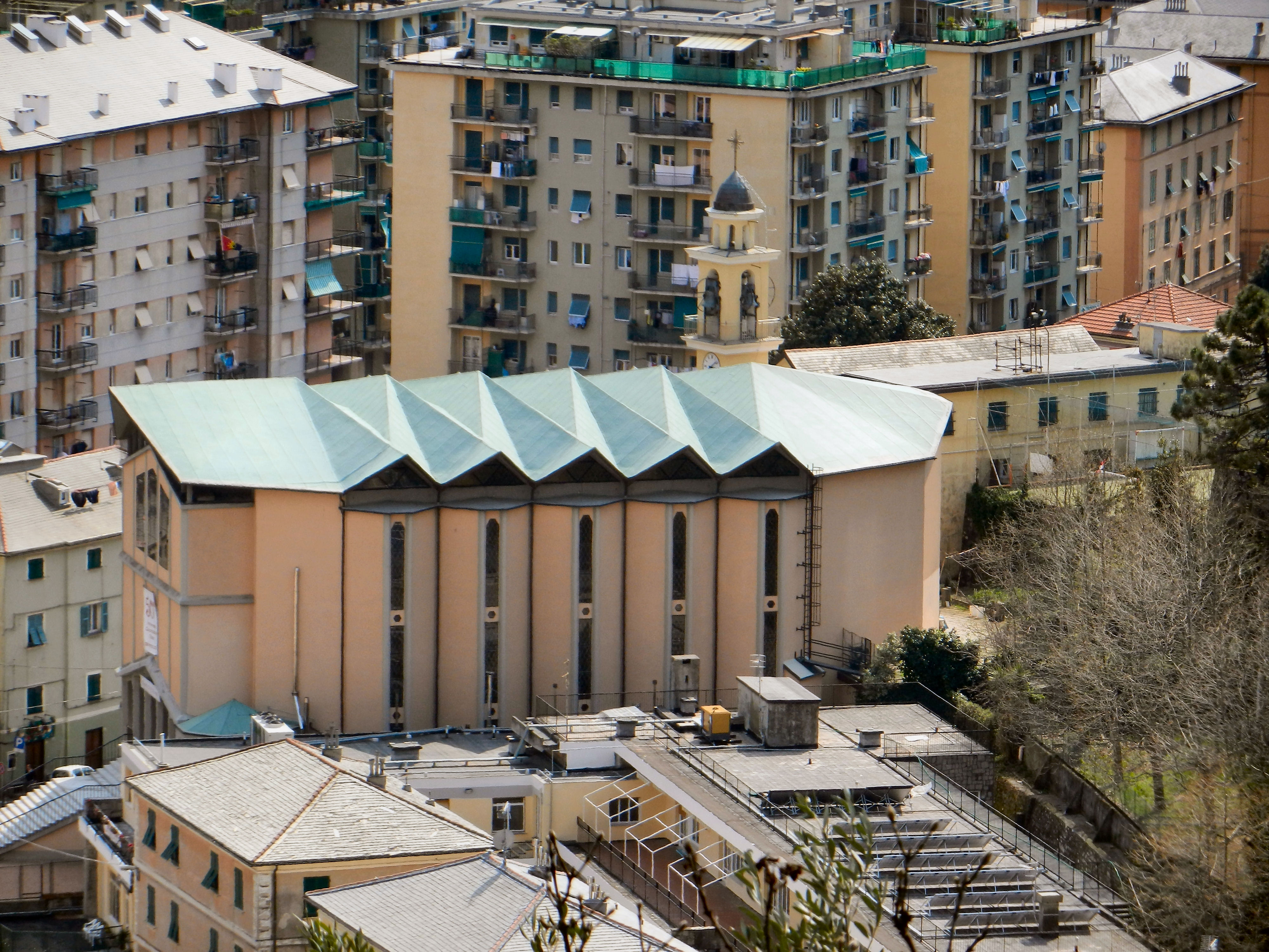 Genoa (Italy), church of San Gottardo